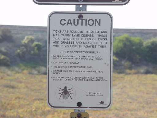 ticks caution sign at entrance to Del Mar / Carmel Valley Road trail at Los Penasquitos Lagoon